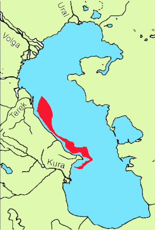 The range of Benthophilus grimmi